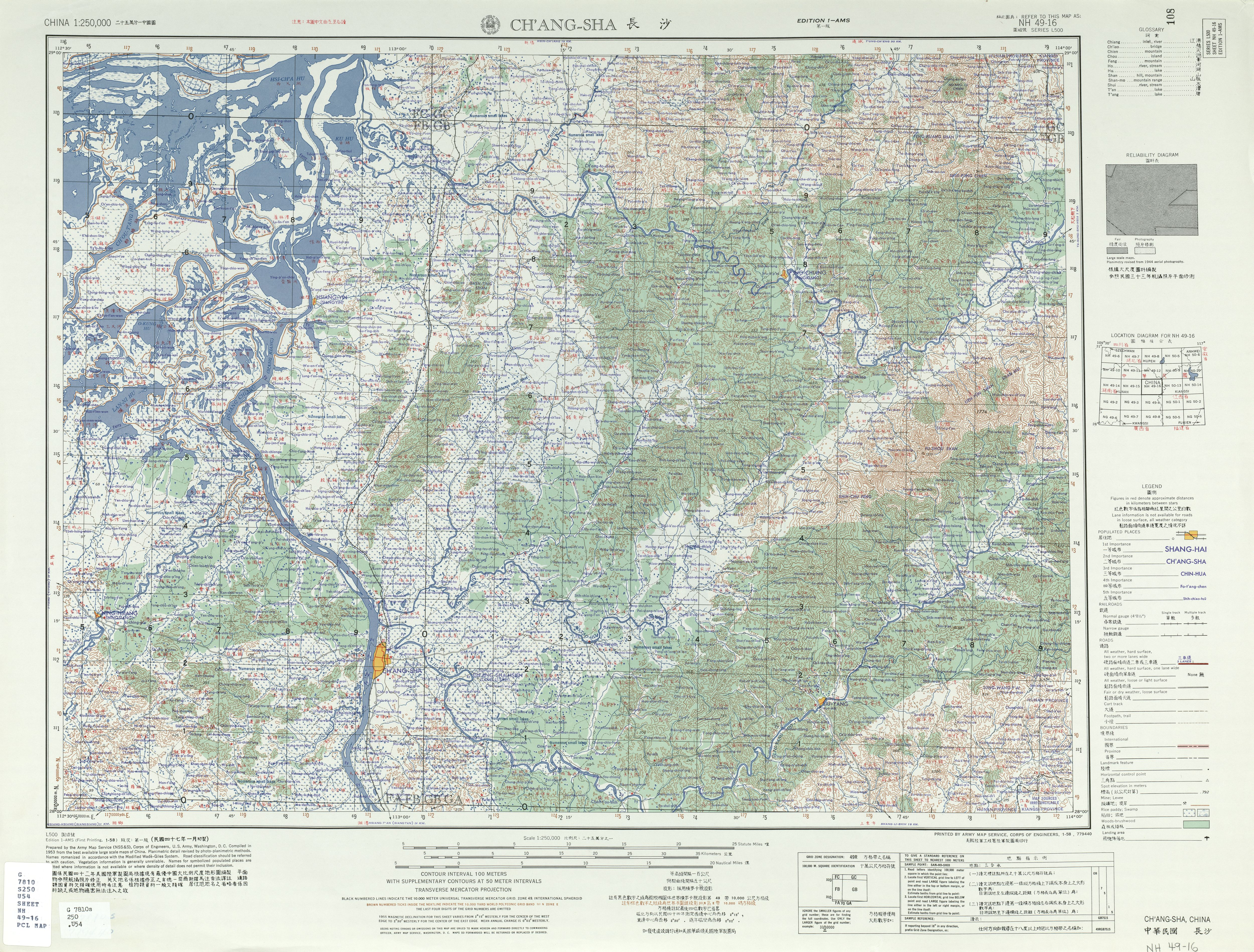 China AMS Topographic Maps